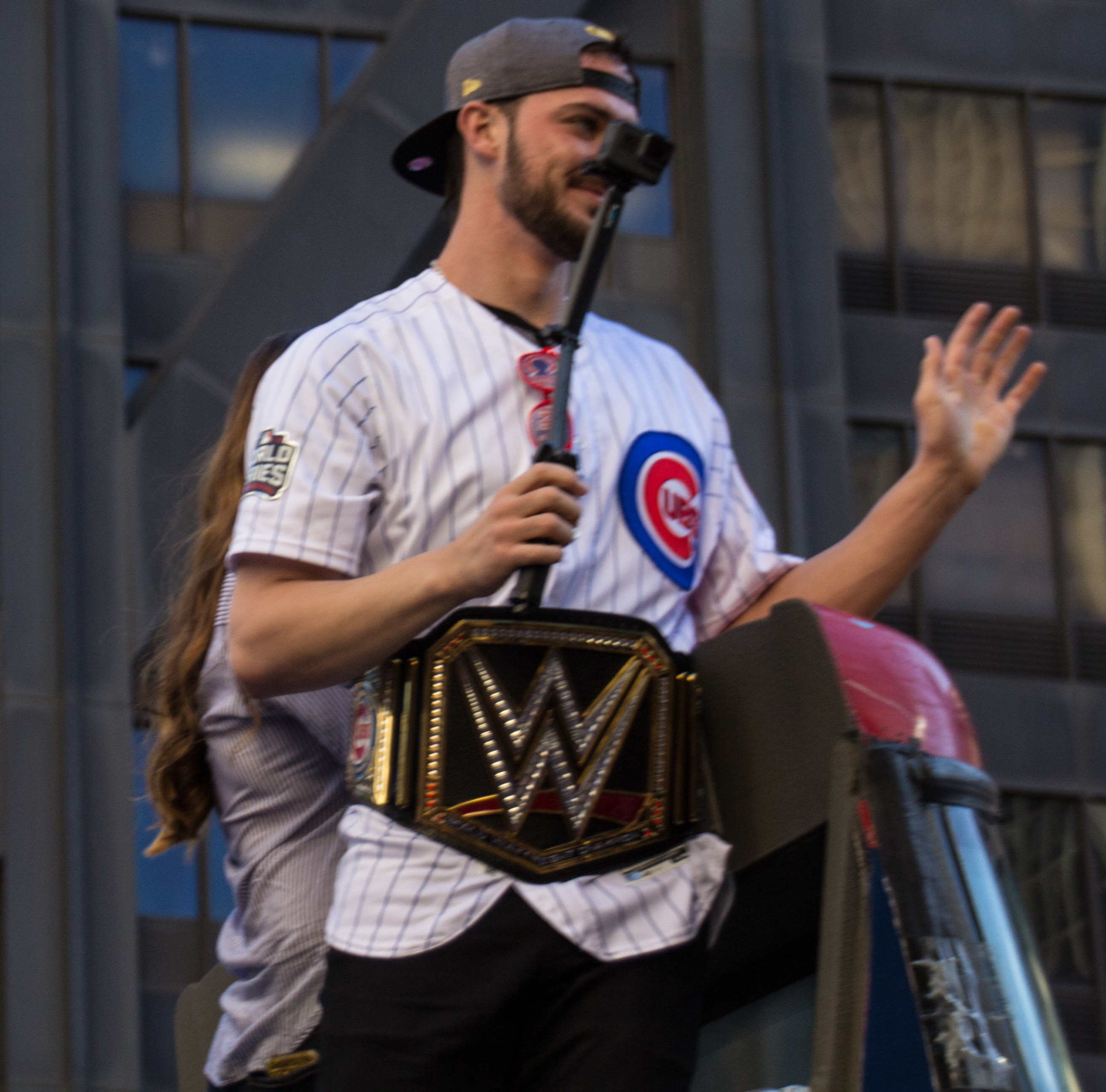 Cubs World Series Victory Parade